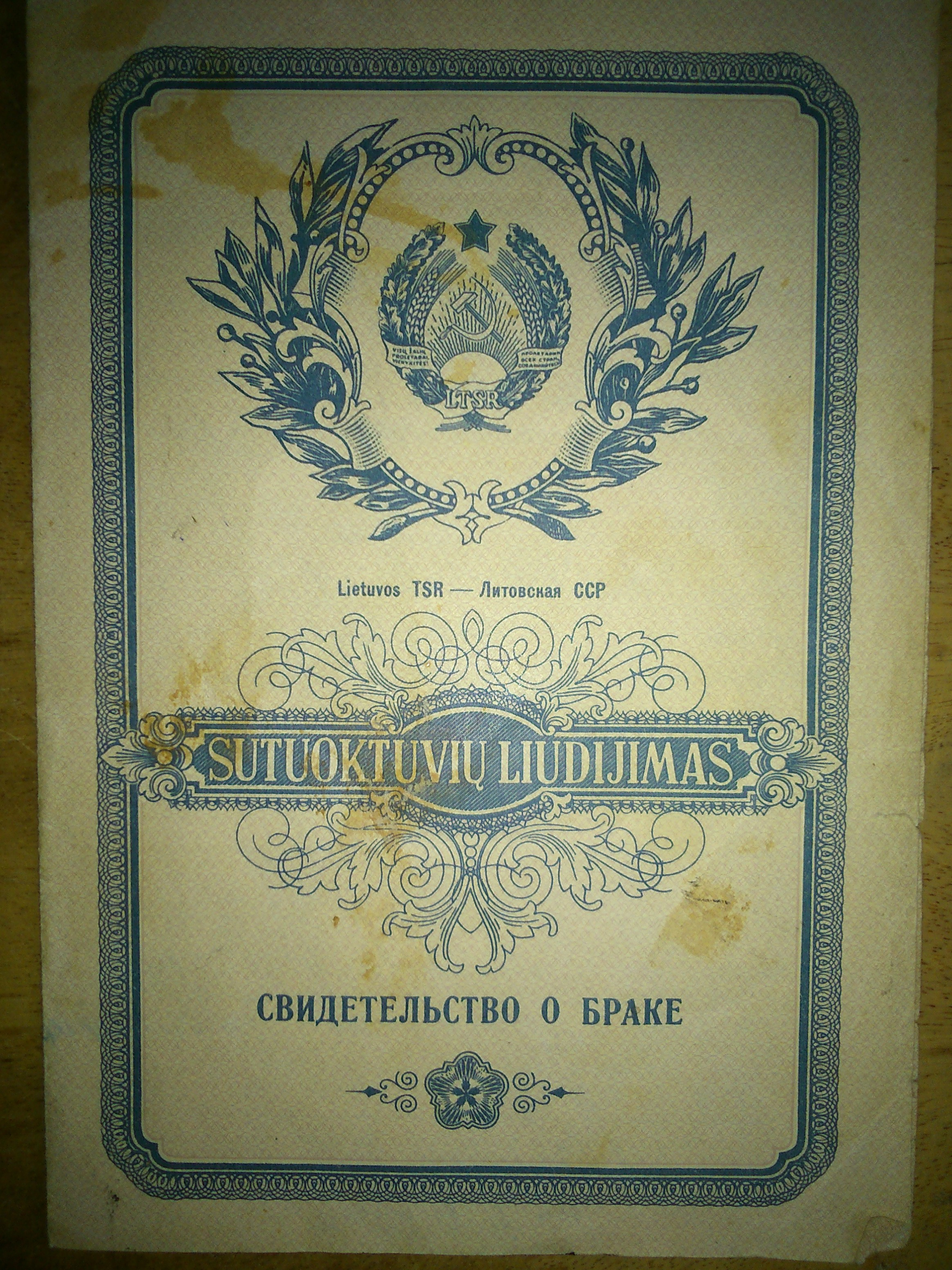 Sutuoktuvių liudijimas, LTSR